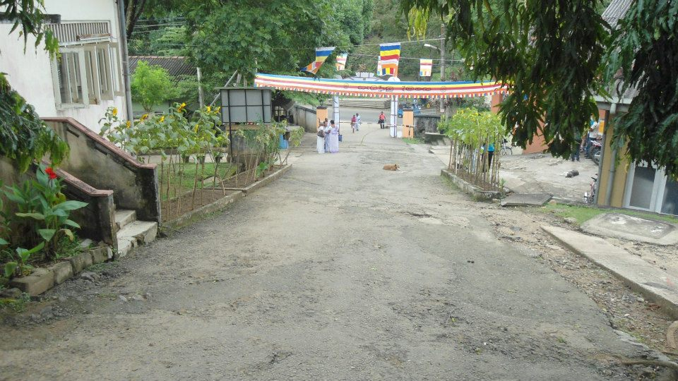 main entrance at KRC